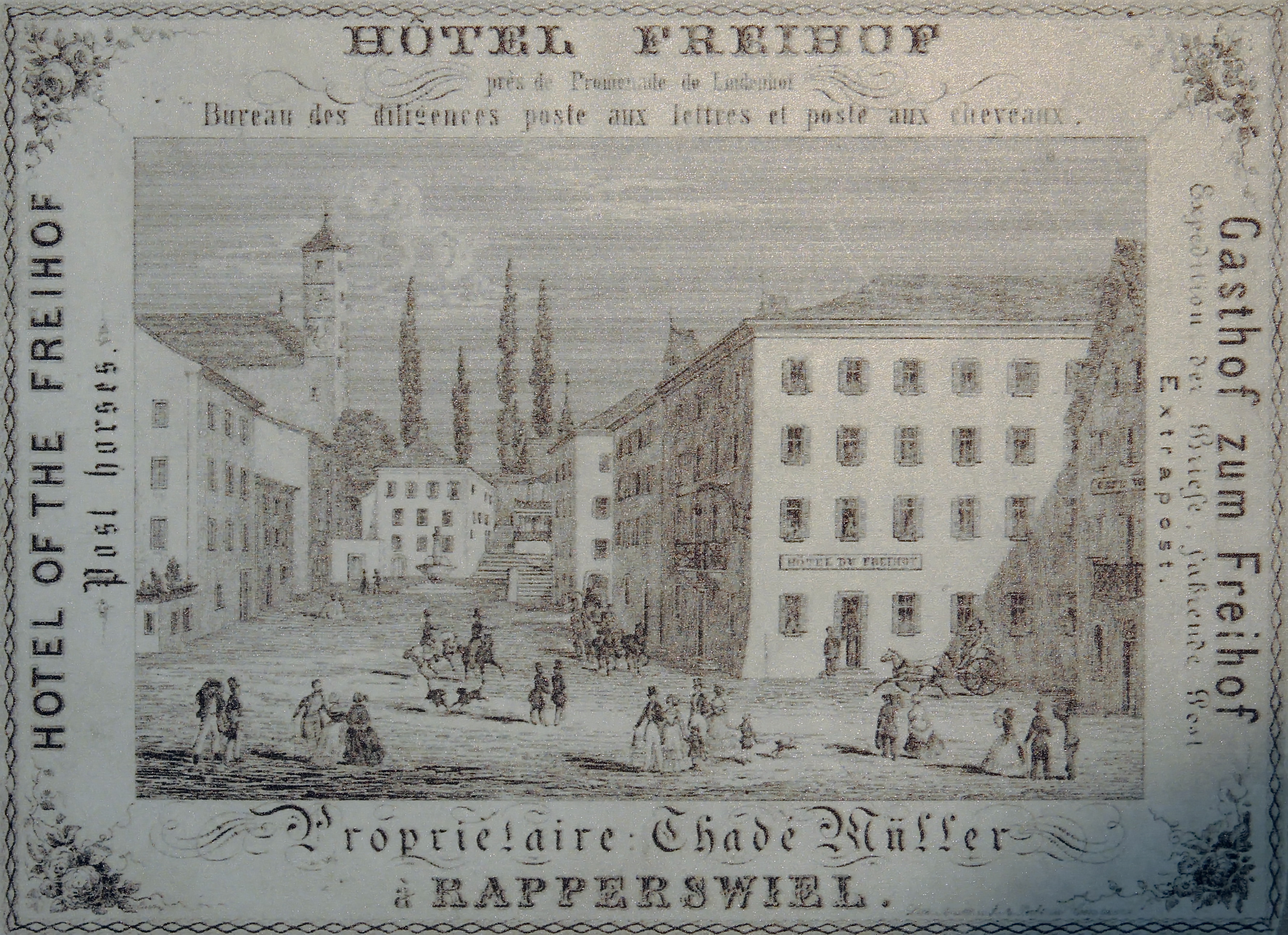 Collection of the Stadtmuseum) in Rapperswil (Switzerland)